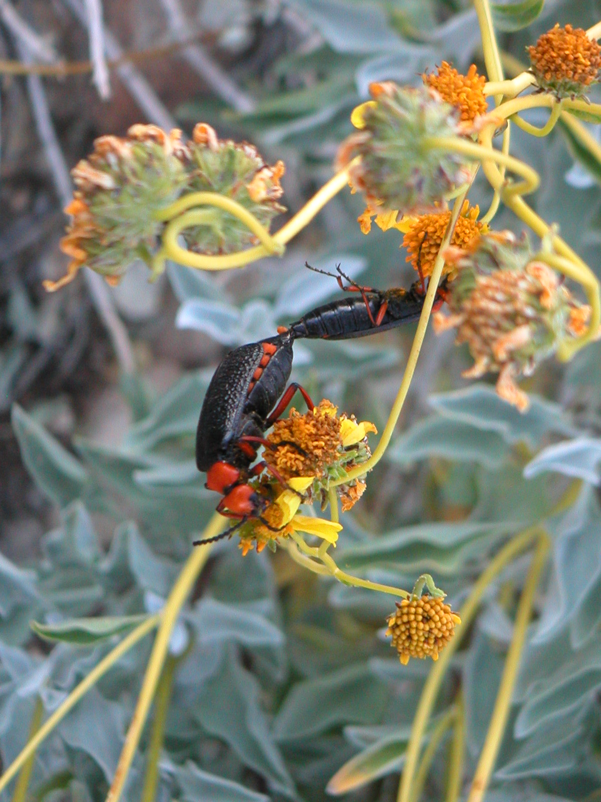 red and black insects from Anza Borrego State Park